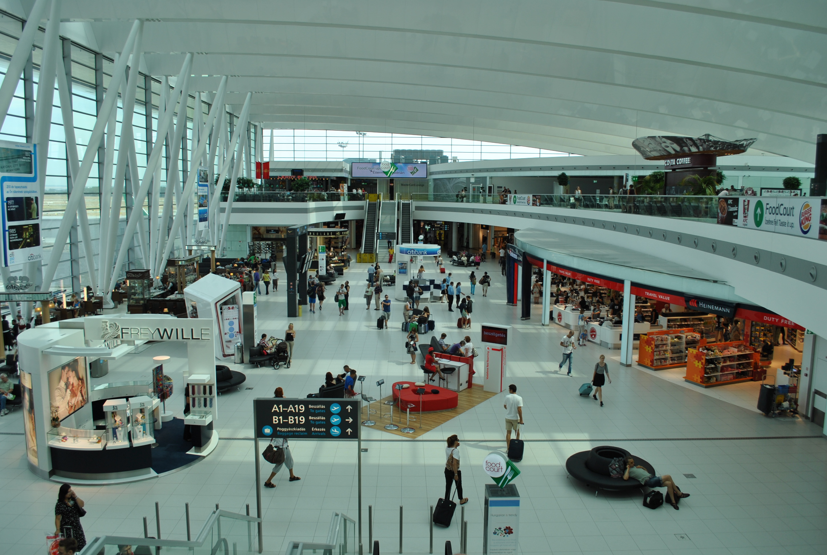 Budapest Liszt Ferenc International Airport inside of SkyCourt